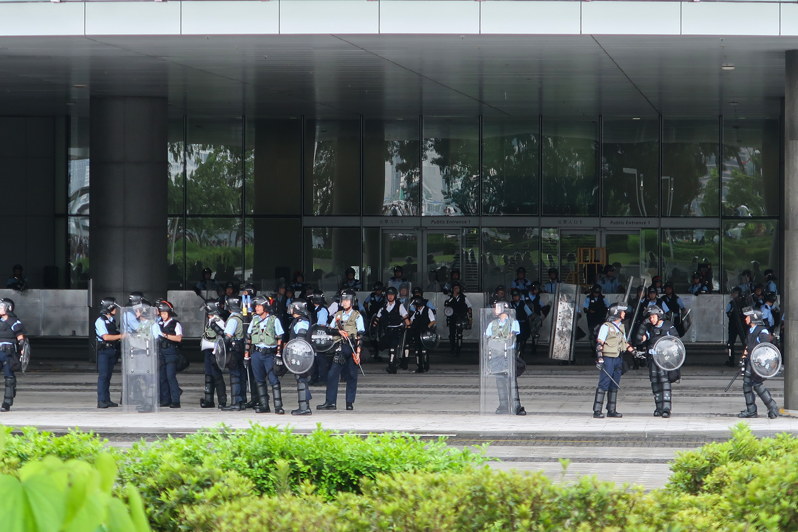 Legislative Council complex police force